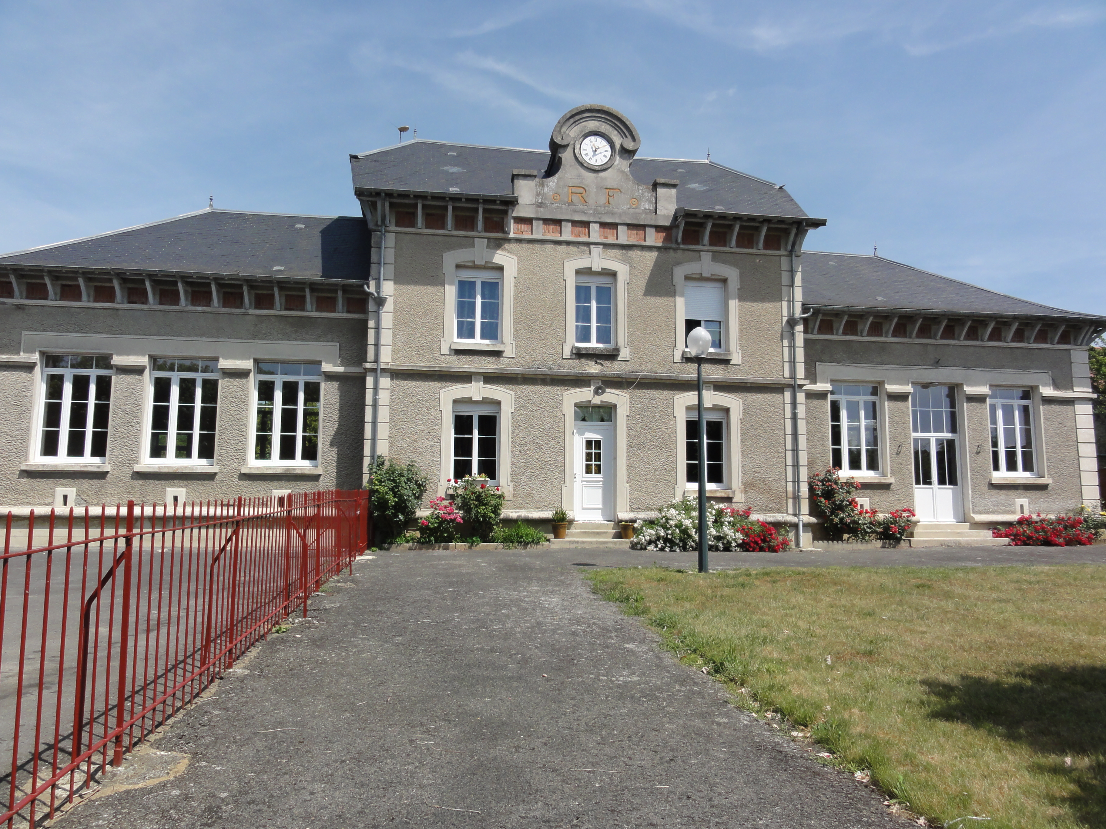 Moussy-Verneuil (Aisne) mairie (à Verneuil)